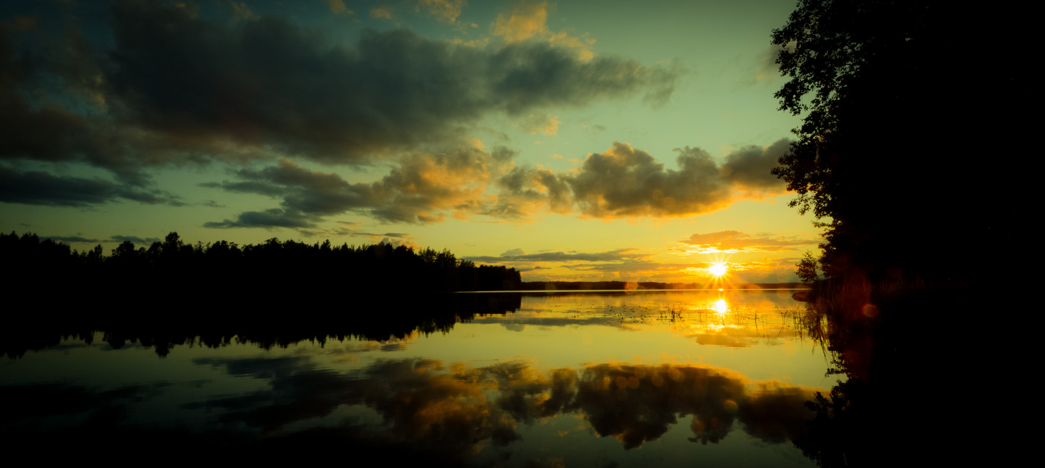 500px provided description: Sunset Over Lake Erajarvi [#Landscape ,#Green ,#Dusk ,#Lake ,#Sun ,#Sky ,#Sunset ,#Clouds ,#Beautiful ,#Evening ,#Mood ,#Finland ,#Reflection ,#Yellow ,#Romantic ,#Scandinavia ,#Erajarvi]